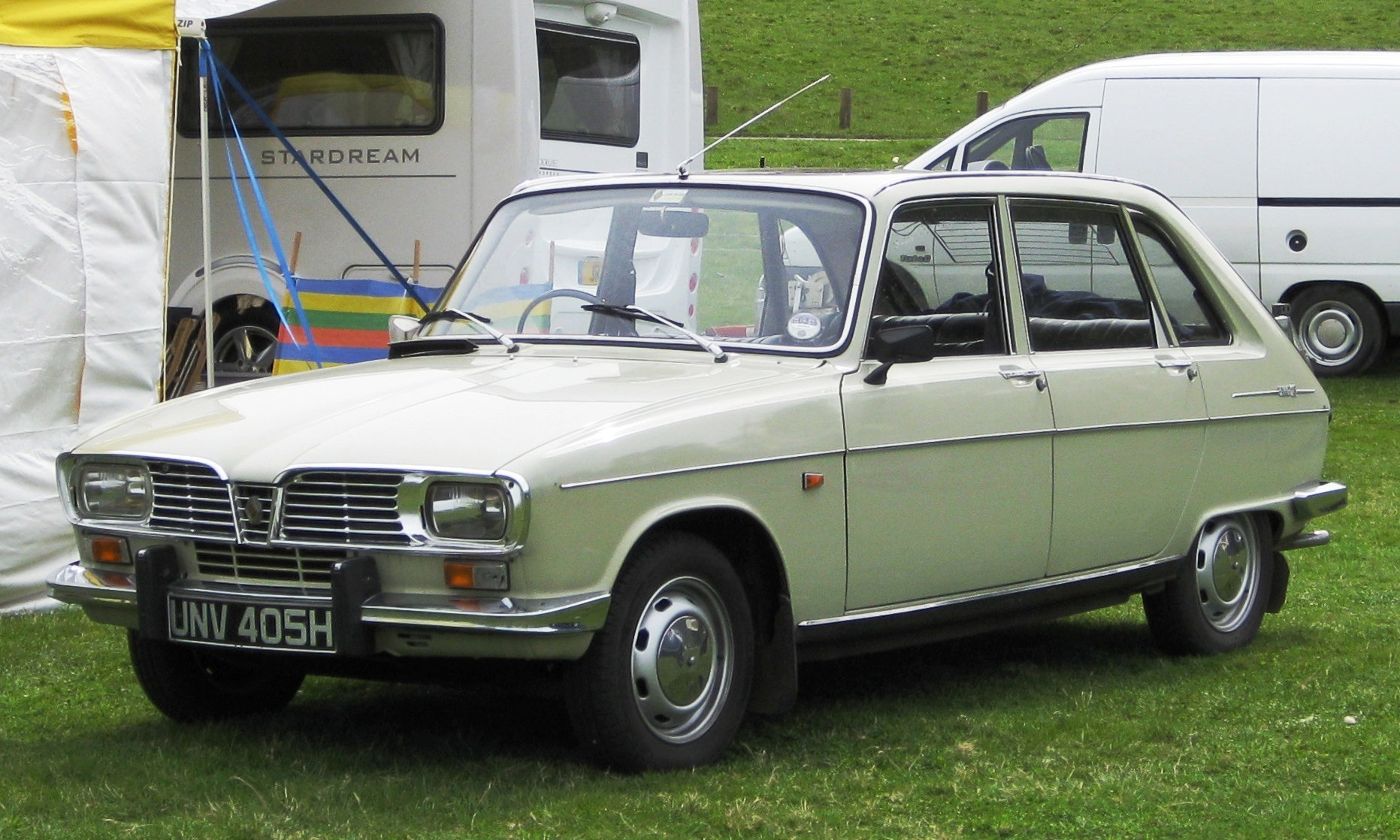 Renault 16 near Biggleswade